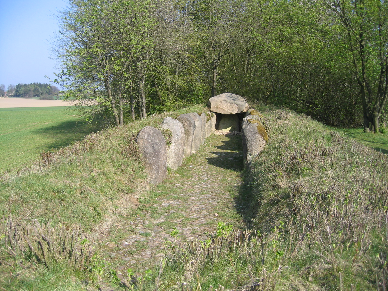 End view of the Dolmen near Dohnsen. Lower Saxony, Germany.